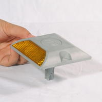 Cast aluminum road stud